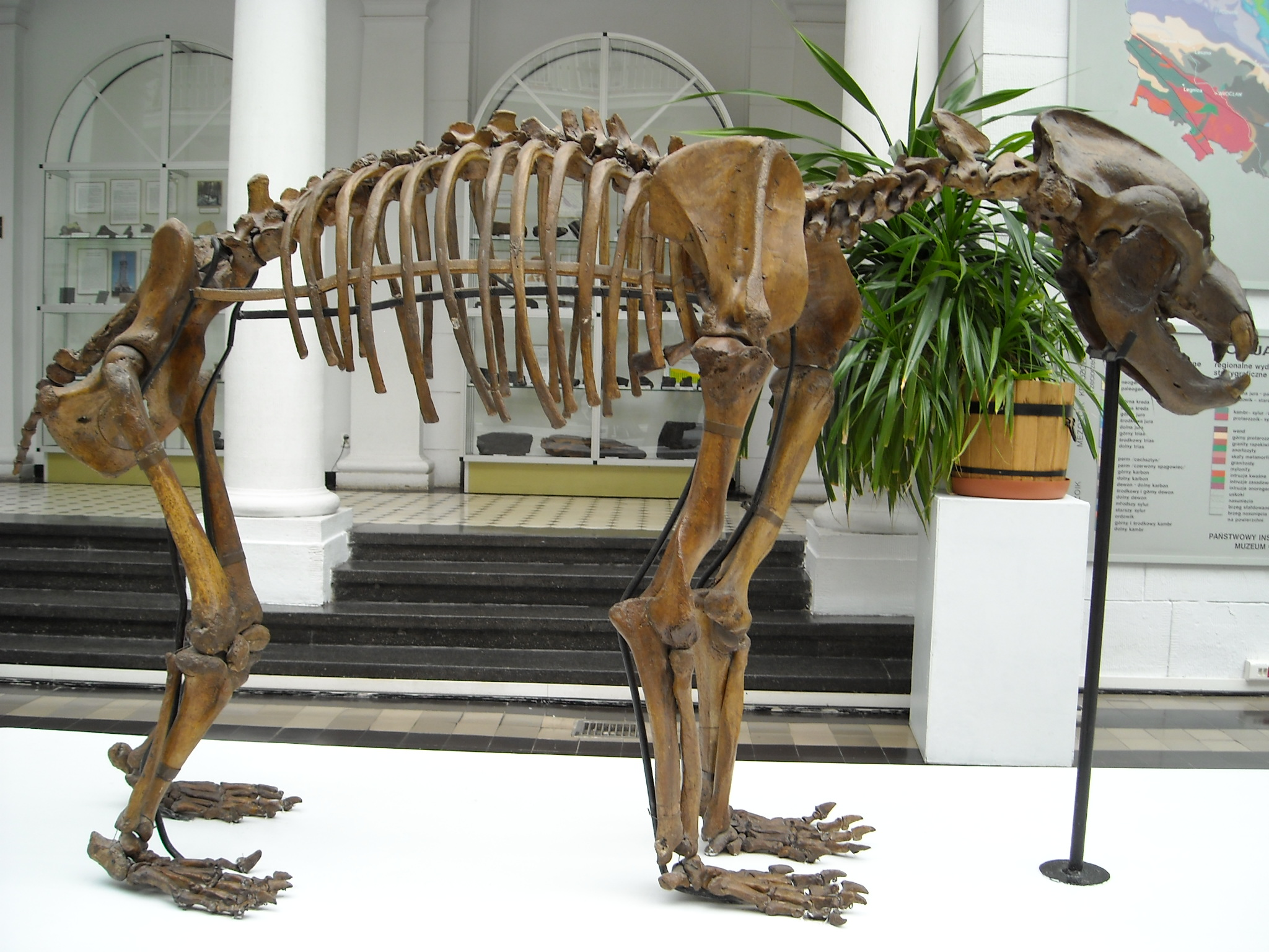 Cave bear (Ursus spelaeus) skeleton.